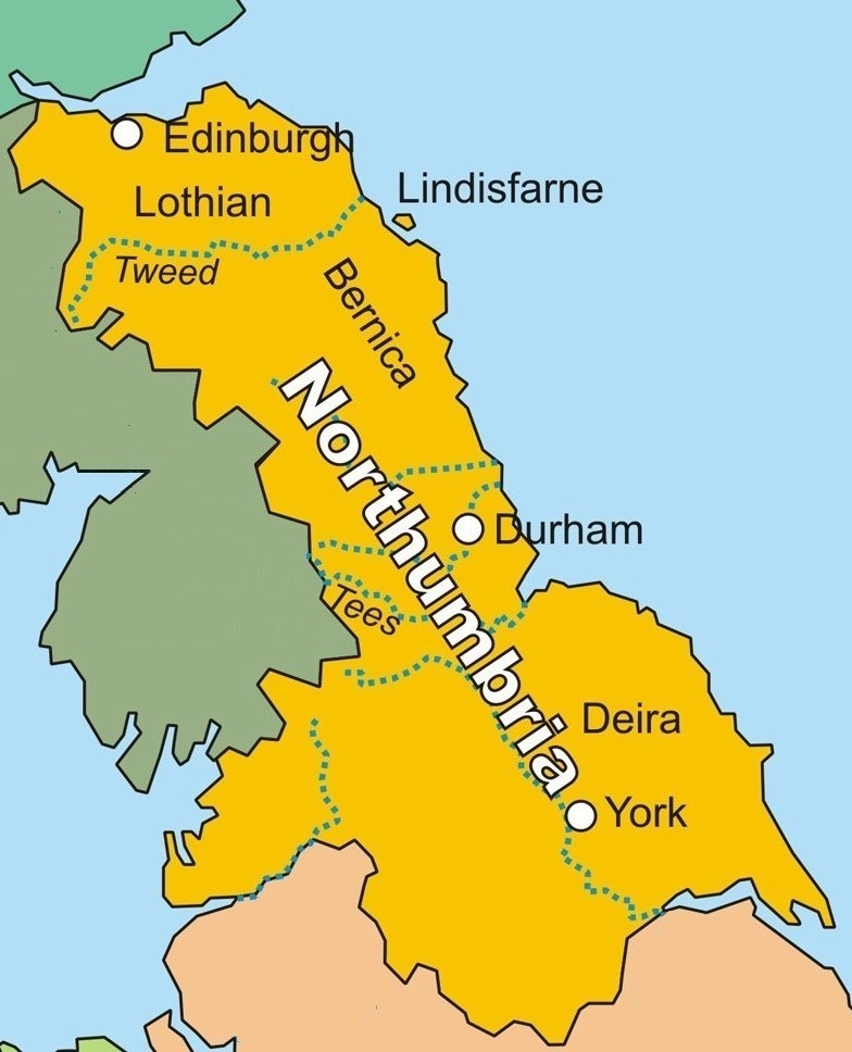 Kingdom of Northumbria in AD 802